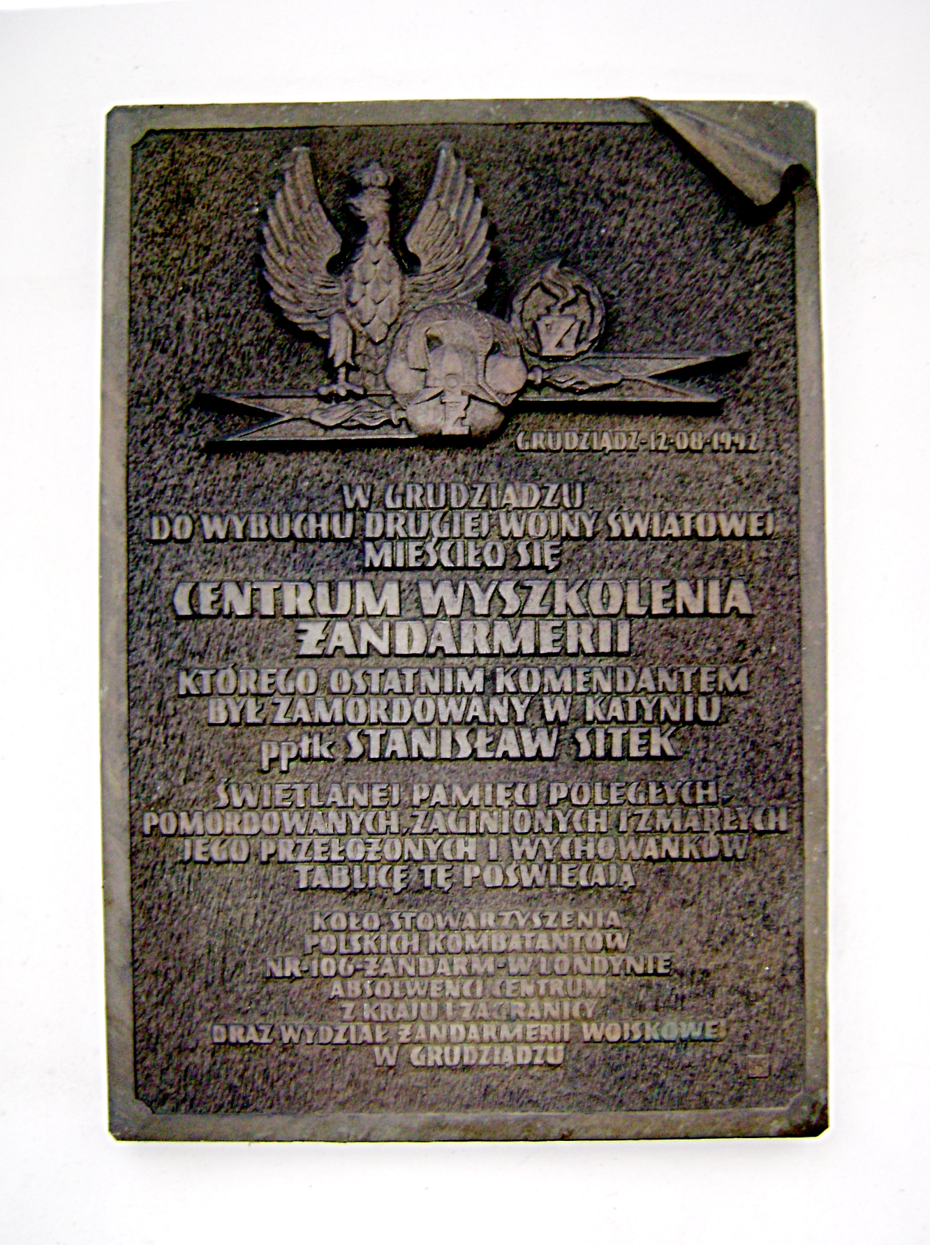 Plaque of Centrum Wyszkolenia Żandarmerii in Grudziądz